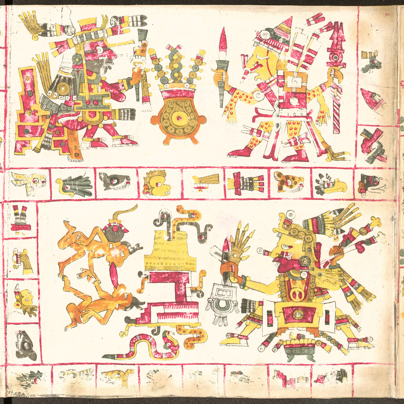 Page 61 of the Codex Borgia.